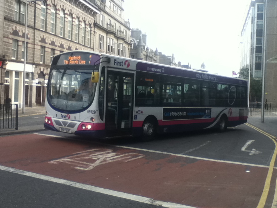 A First Aberdeen Volvo B7RLE, Wright Eclipse Urban, SV07 EHF seen at Guild Street, Aberdeen on 3, Mastrick, Purple Line.